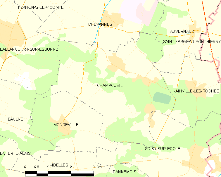 Map of French municipality Champcueil